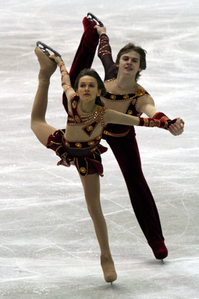 2008 World Junior Figure Skating Championships - Ksenia Krasilnikova and Konstantin Bezmaternikh